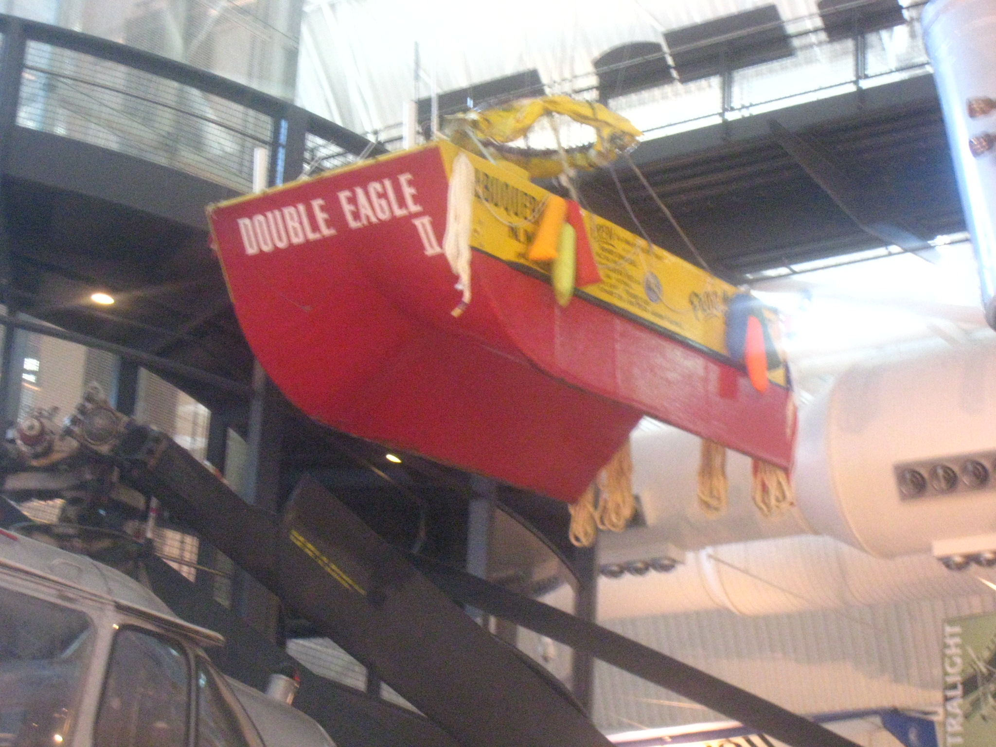 Double Eagle II Gondola